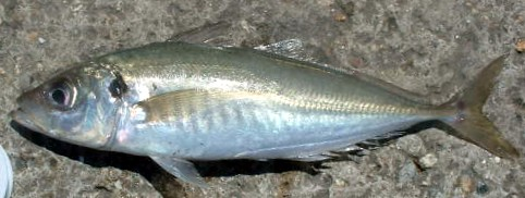 Atlantic Horse Mackerel (Trachurus trachurus). Photo taken on a trip to Kent, England.